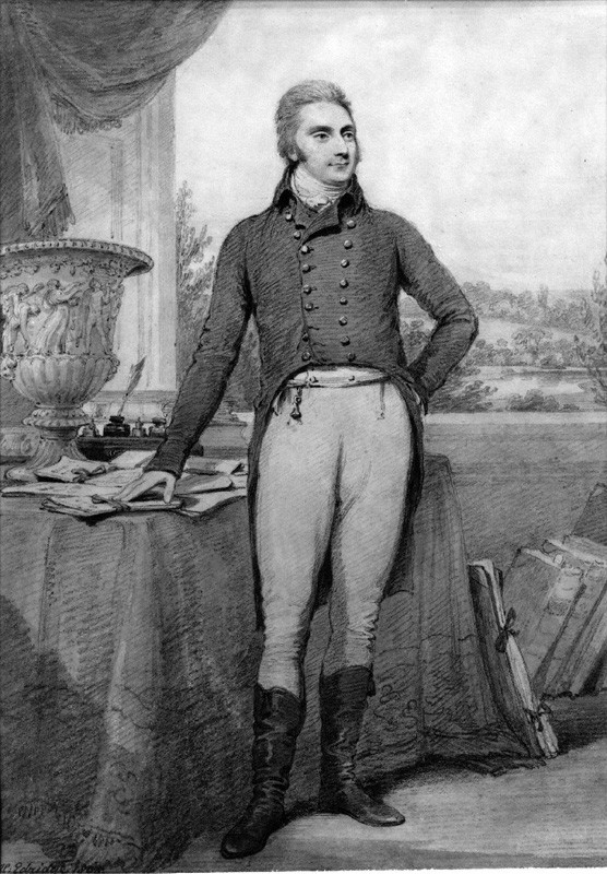 Charles Long, 1st Baron Farnborough (1760-1838)